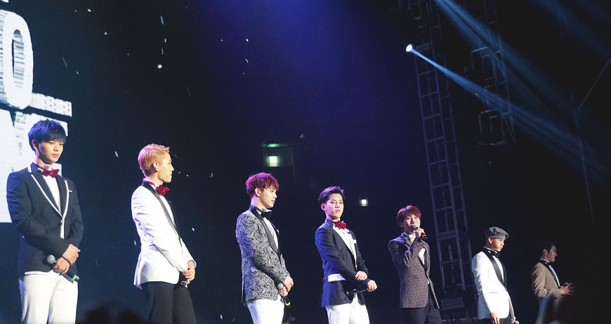 BtoB, second concert "Born to Beat Time"